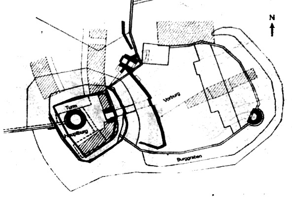 Changed part of picture Rheinbach_Tafel.jpg.